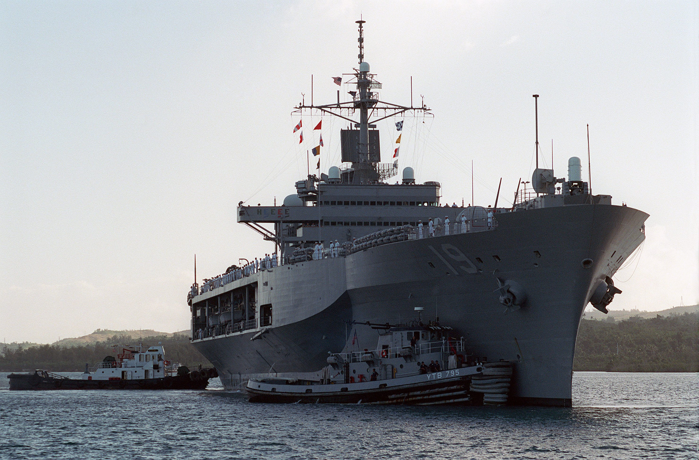 A starboard bow view of USS Blue Ridge (LCC-19) being assisted by Ketchikan (YTB-795) and another tug, while docking at Sierra Pier, Naval Station Guam during Exercise TANDEM THRUST '99. US Marine Corps photo # 990325-M-5506S-018 APRA, GUAM 25 March 1999, by LCPL Penny Surdukan.